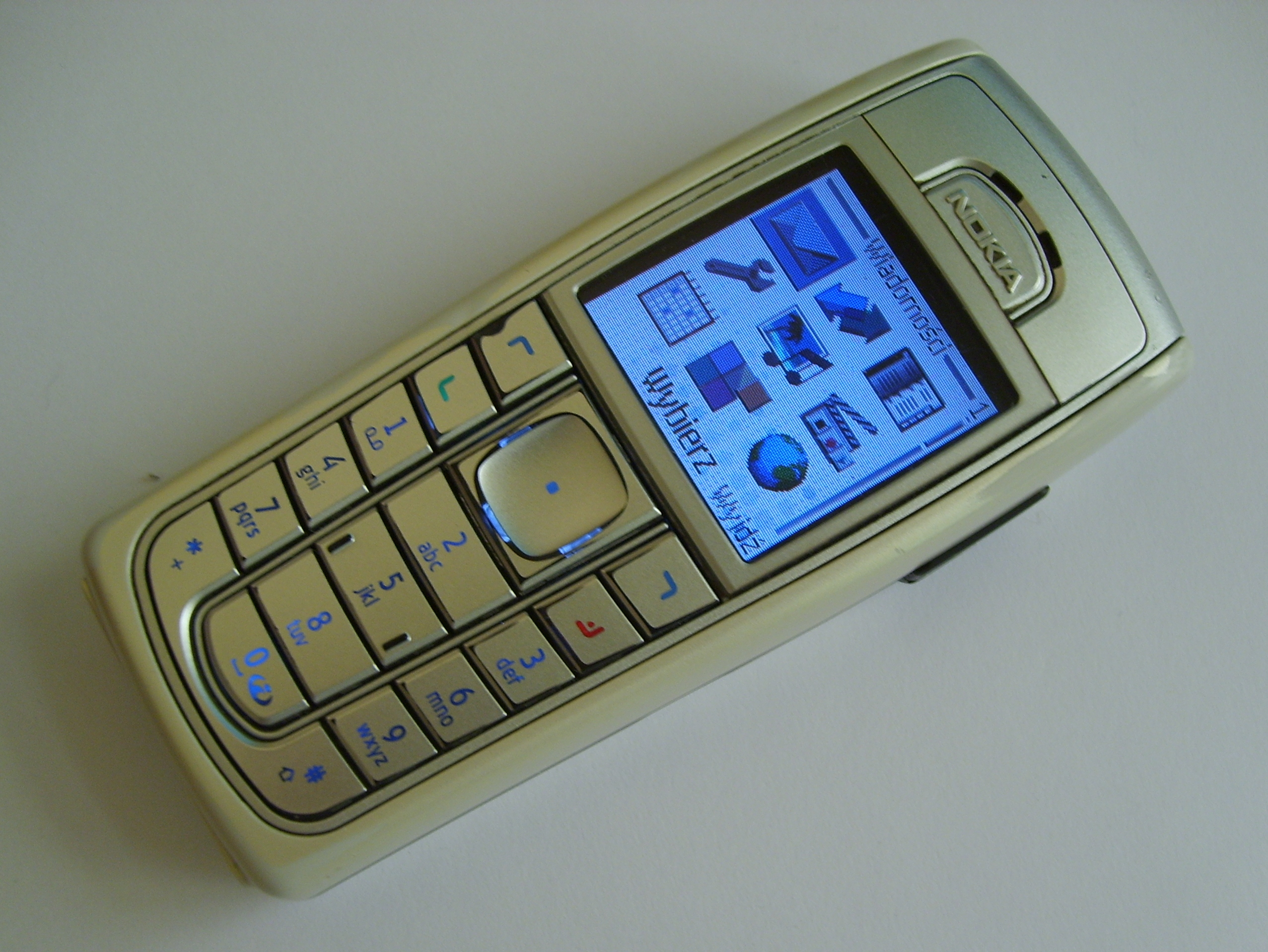 Nokia 6230 with menu displayed in Polish